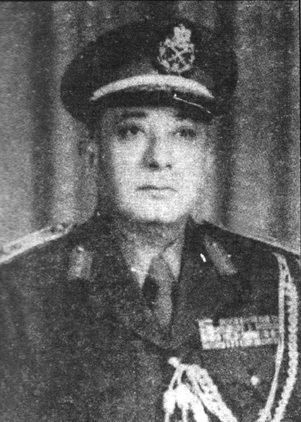 Colonel Abd el-Hamid Abd el-Sami', commander of the Egyptian 16th Infantry Brigade, 16th Infantry Division, during the Yom Kippur War.